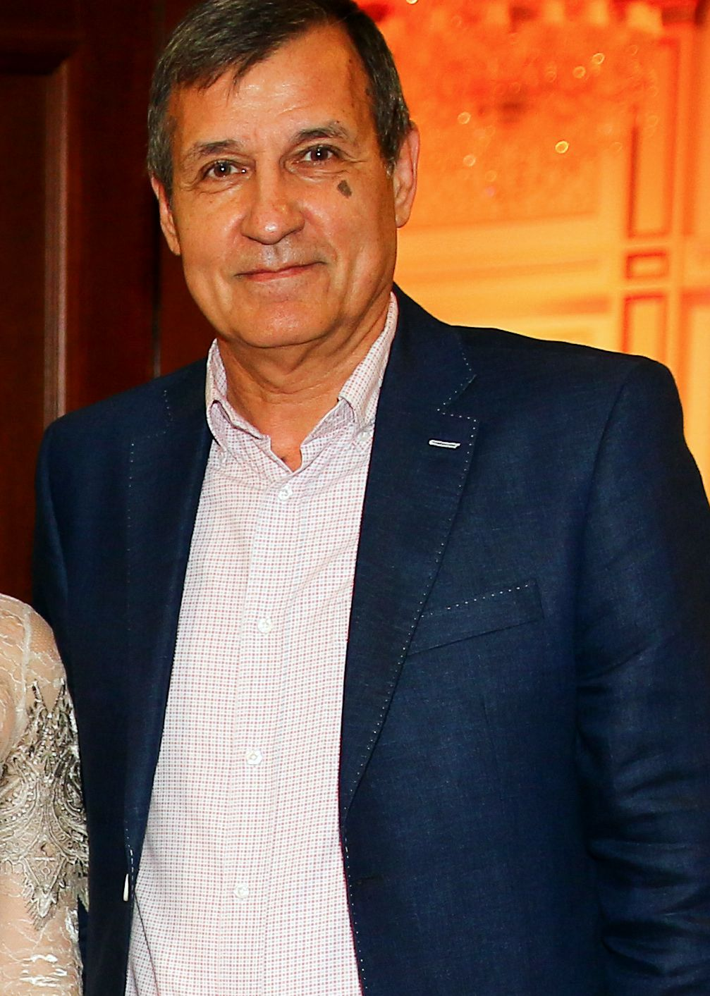 Dr. Stoyan Lazarov - Bulgarian cardiac surgeon.